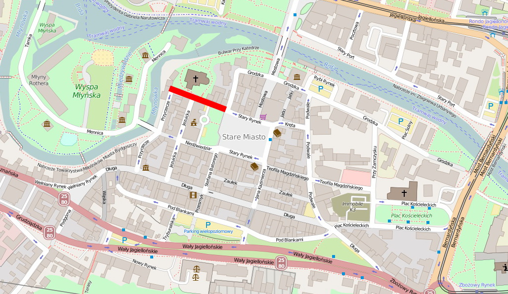 Street on dowtown map